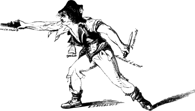 A Septembriseur. It seems this is a copy of picture featuring the attempt on Bonaparte, rue Saint-Nicaise. Nothing to do with the September massacres.